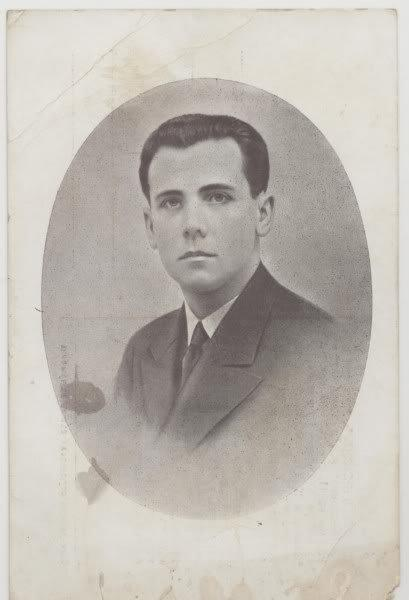 Portrait of bulgarian revolutionary from IMRO and chief of La Macedonia newspaper Simeon Evtimov